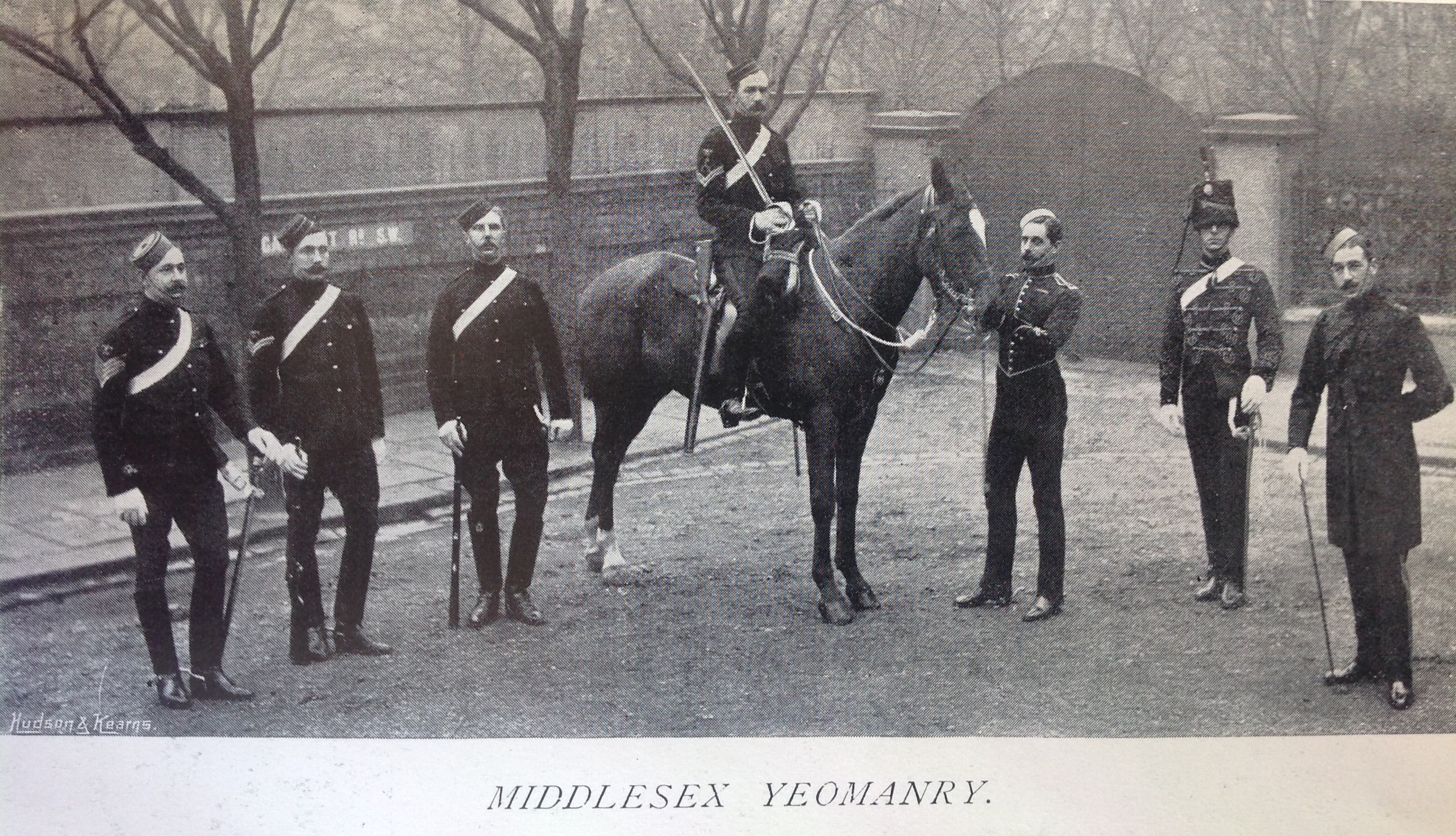 All ranks group, Middlesex Yeomanry. Pictured in the Navy and Army Illustrated published on 9 April 1896